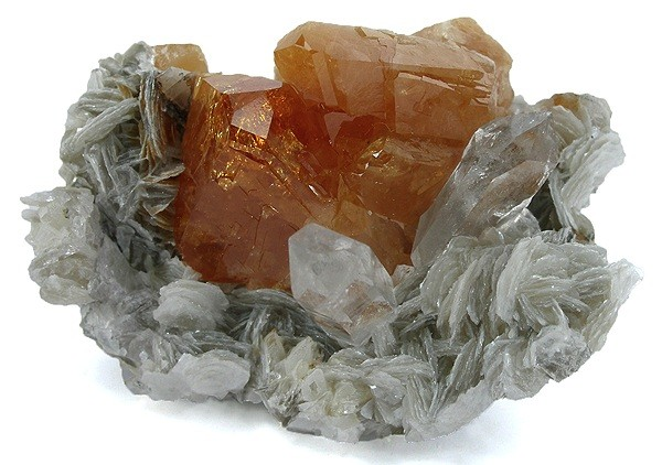 Scheelite Locality: Mt Xuebaoding, Pingwu County, Mianyang Prefecture, Sichuan Province, China (Locality at ) Size: 6.2 x 4.4 x 3.3 cm. This well-balanced small cabinet is from a small find on the "other side of the mountain" from the former main adits to the Ping Wu mines, on Mt Xuebaoding in the Panda Preserve of Sichuan Province. The crystals are distinctly distorted into fat triangular shapes more slim in one dimension, than equant and octahedral as we normally expect in scheelite. These crystals are to 2 cm in size, and are incredibly gemmy in the terminations.